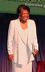 Maya Angelou at the Discovery 2000 conference.